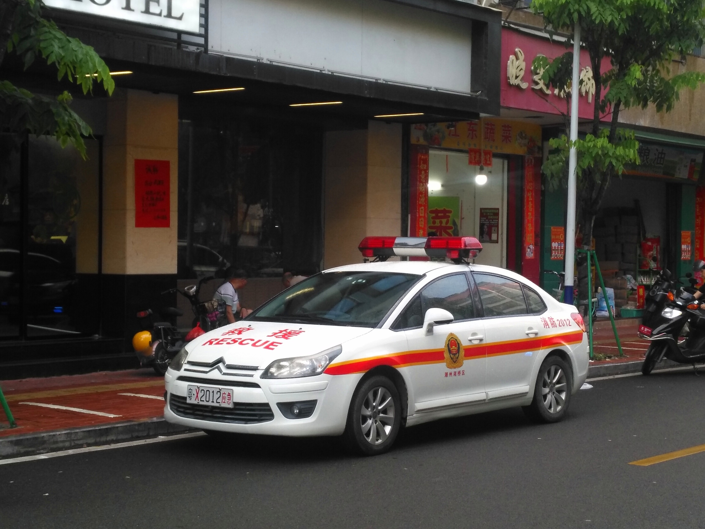 A Dongfeng Citroen C-Triomphe fire rescue car in Chaozhou, Guangdong, China.